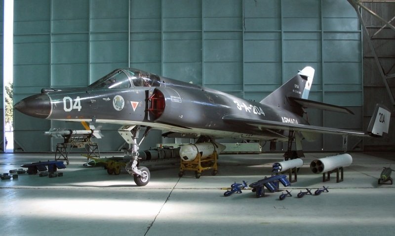 Argentine Navy Super Etendard (notice Atlantic Conveyor killmark)